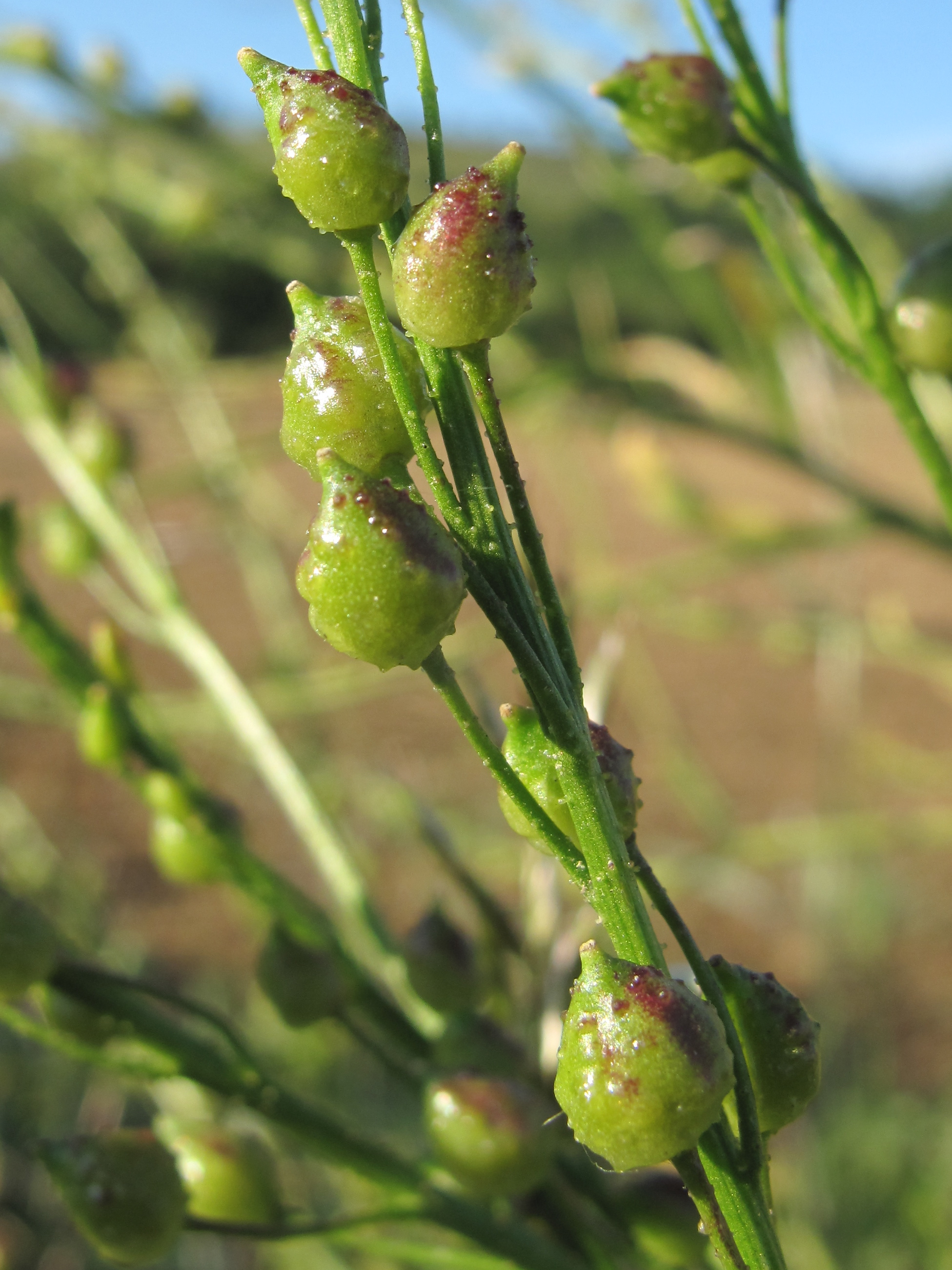 Bunias orientalis fruits